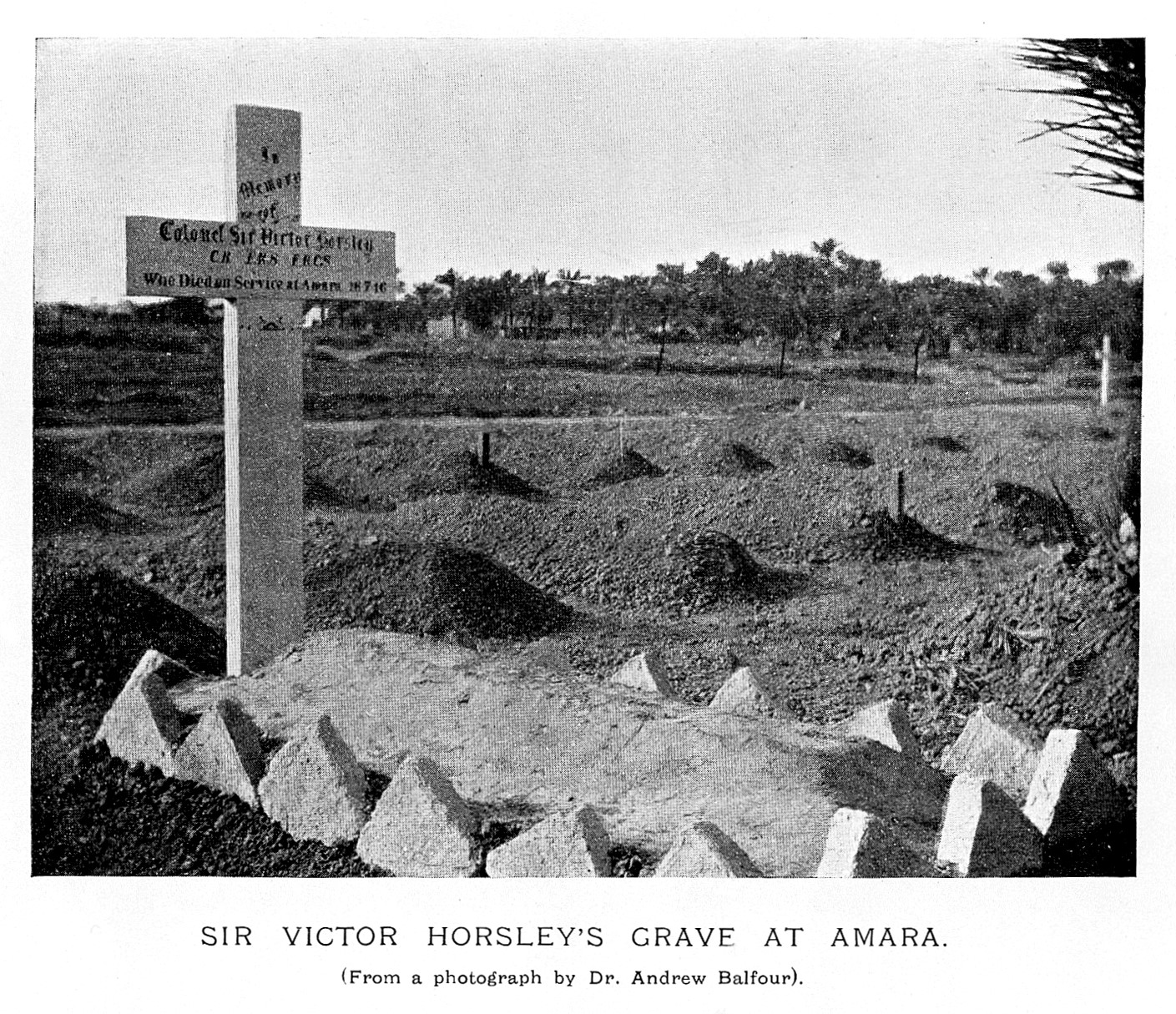 Sir Victor Horsley's Grave at Amara. (Amarah War Cemetery, Iraq) General Collections Keywords: Victor Alexander Haden Horsley